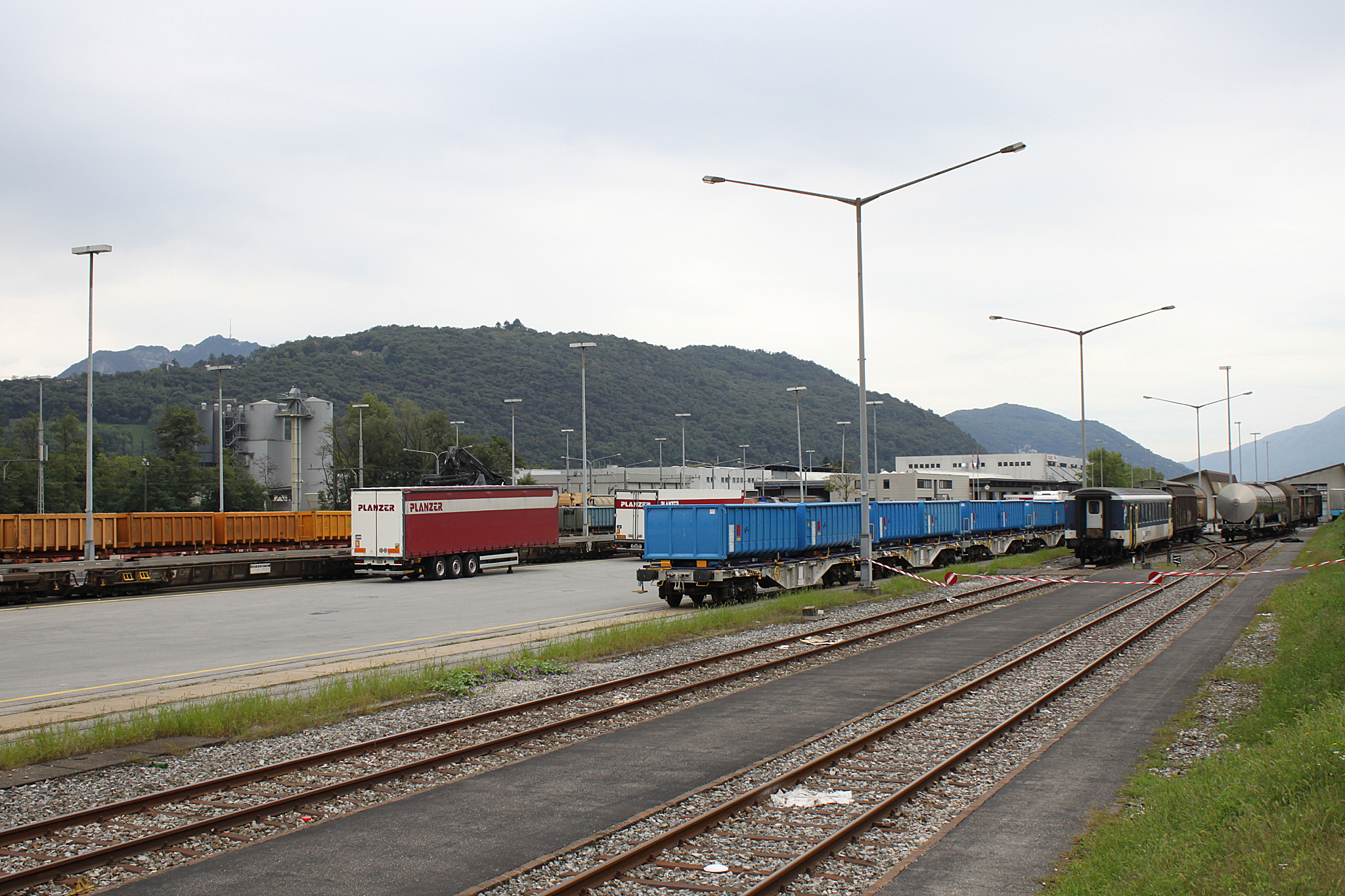 Lugano Vedeggio train station.